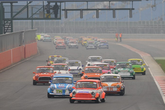 Start of 2011 Mini 7 Racing Club race at Silverstone. In foreground are the Mini Miglias lead by Endaf Owens. In background are the Mini Se7ens.